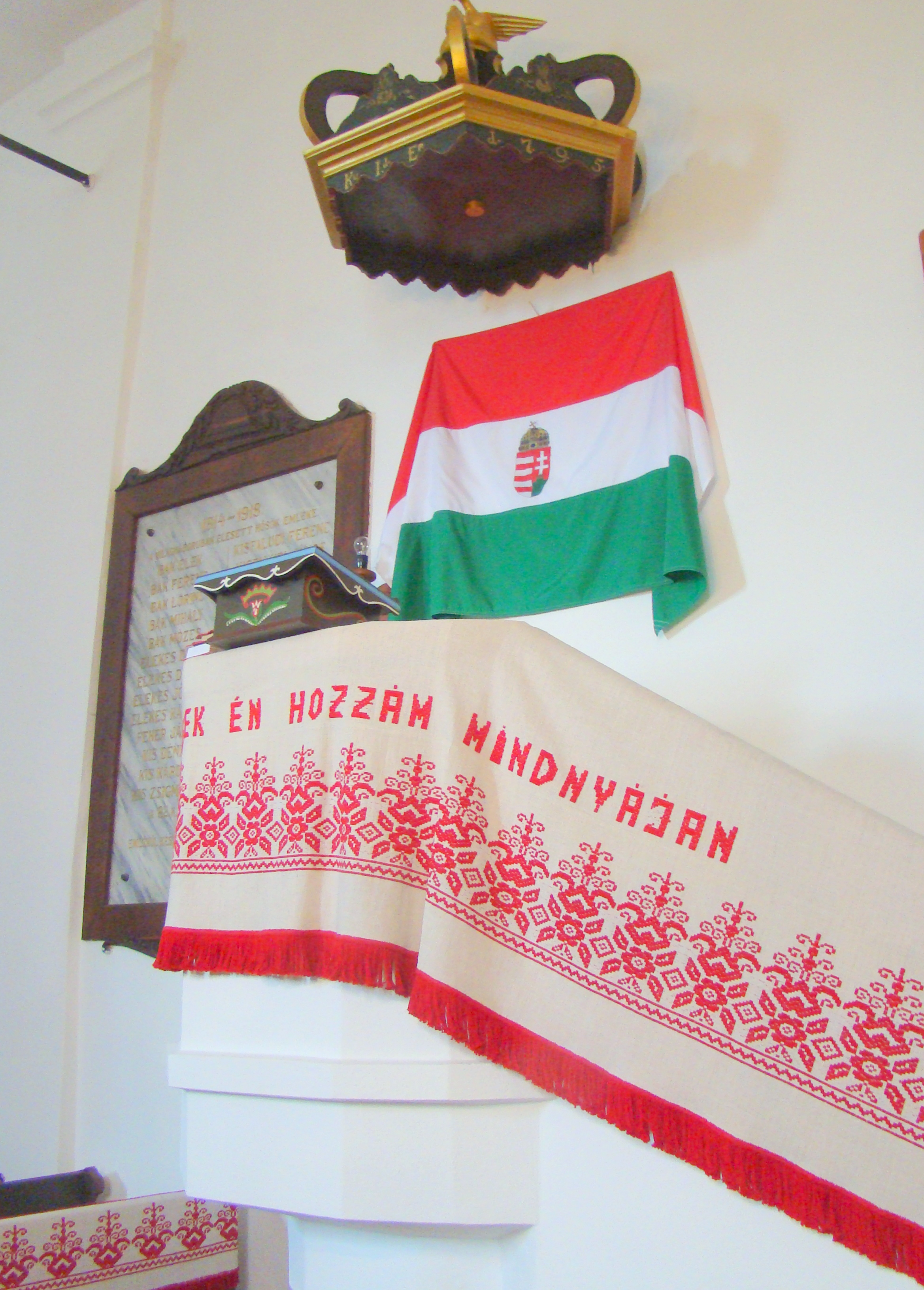 Reformed church in Păltiniș, Harghita county, Romania